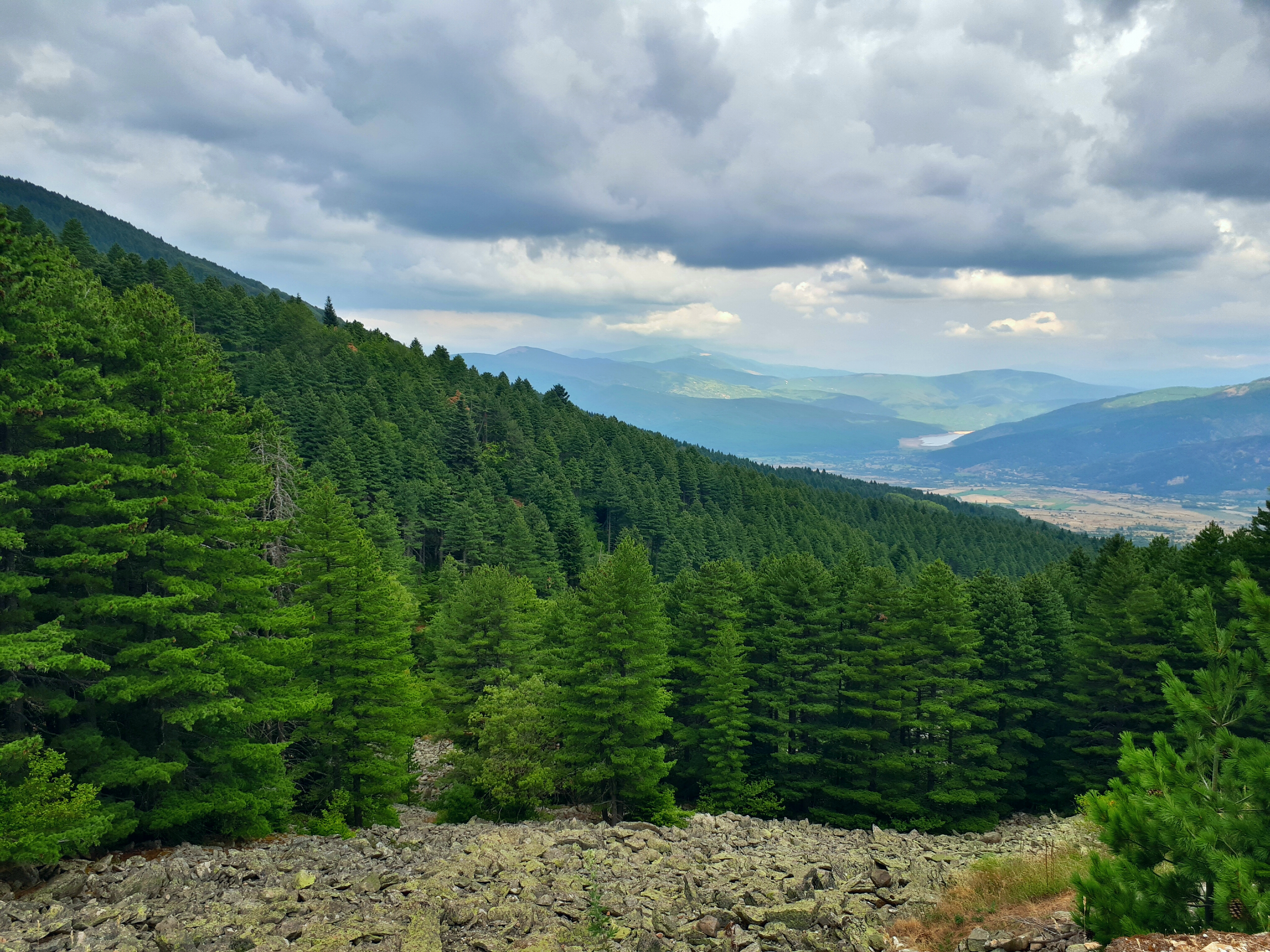 Part of the Veloexpedition in 2017